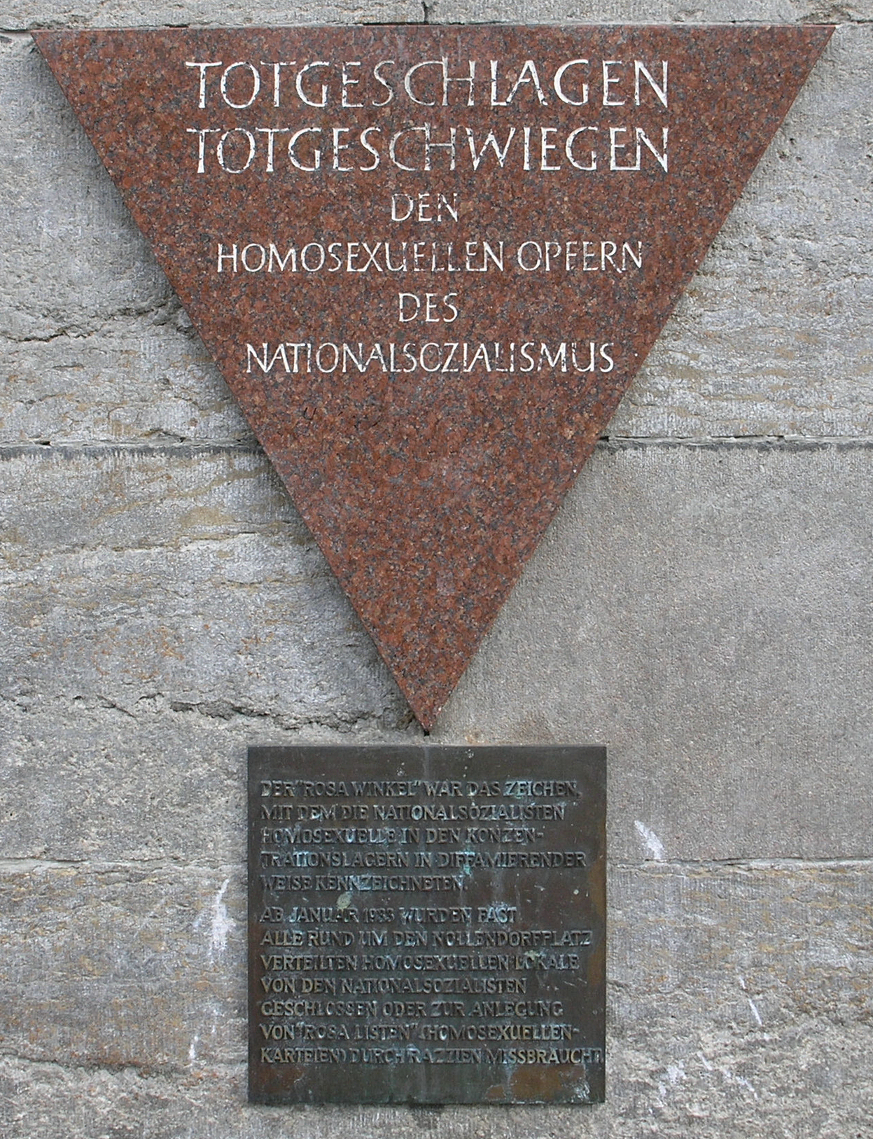 Memorial plaque, NS Opfer, Nollendorfplatz , Berlin-Schöneberg, Germany Koordinate:52°29′59″N 13°21′13″E / 52.49972°N 13.35361°E